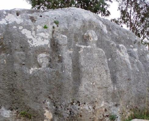 Photo of the bas-relief of the apostles in Qana (Cana), Lebanon. Photo of the bas-relief of the apostles in Qana (Cana), Lebanon.